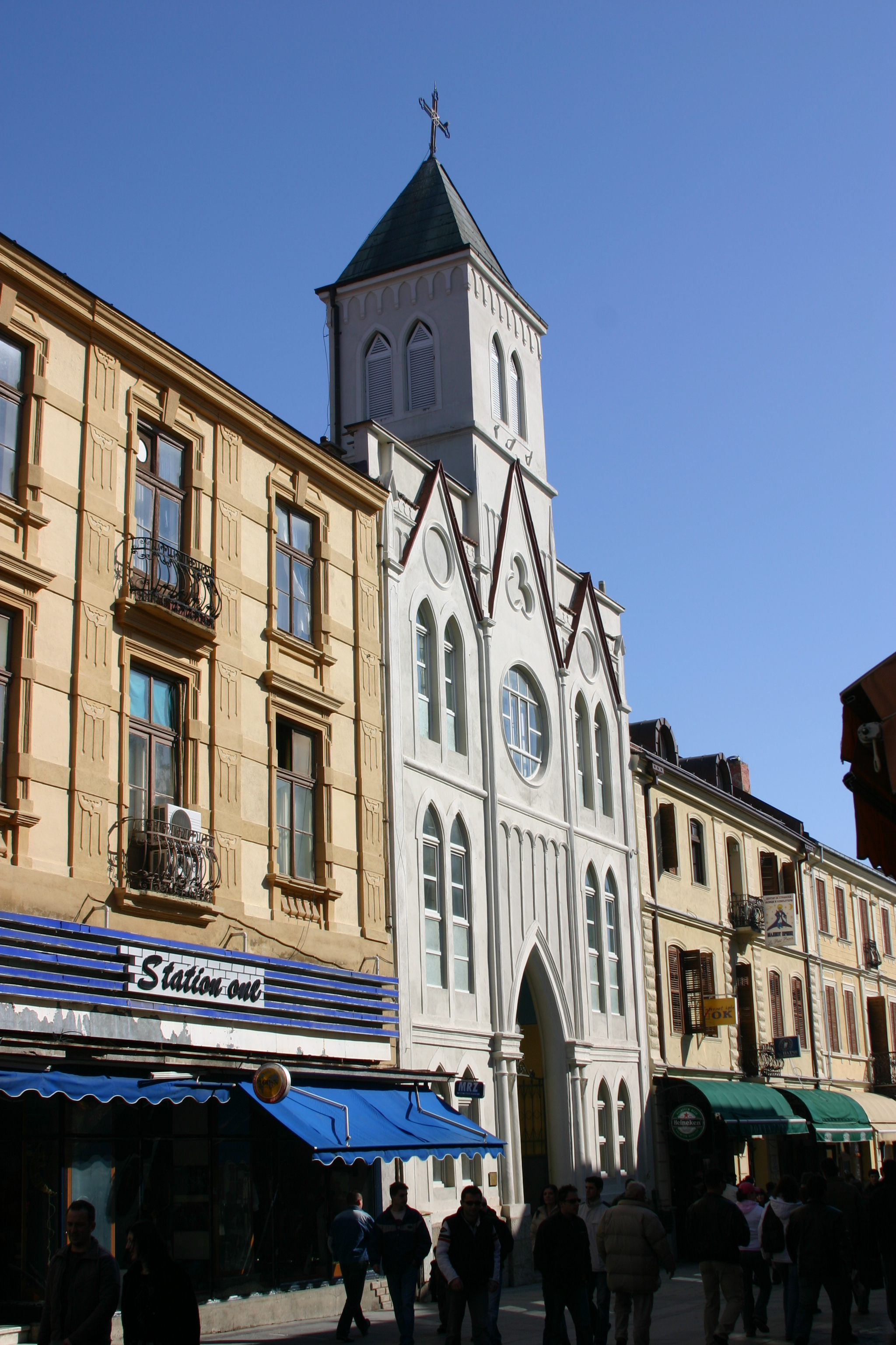 View of the catholic church on the main street in Bitola.